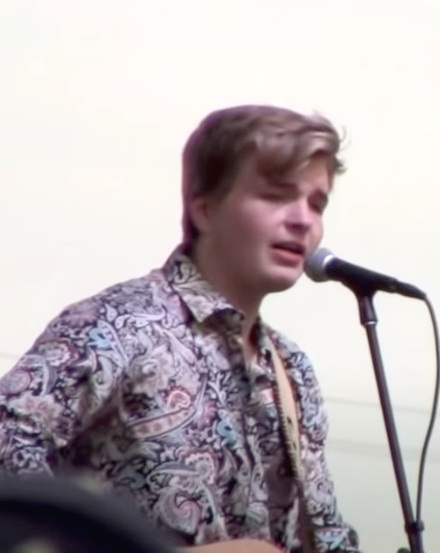 Caleb Lee Hutchinson performaing at the Butler County Fair, screencap from video, color and brightness adjusted